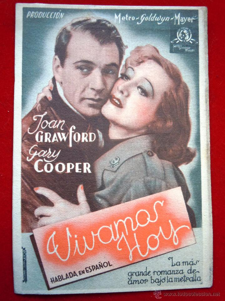 Gary Cooper